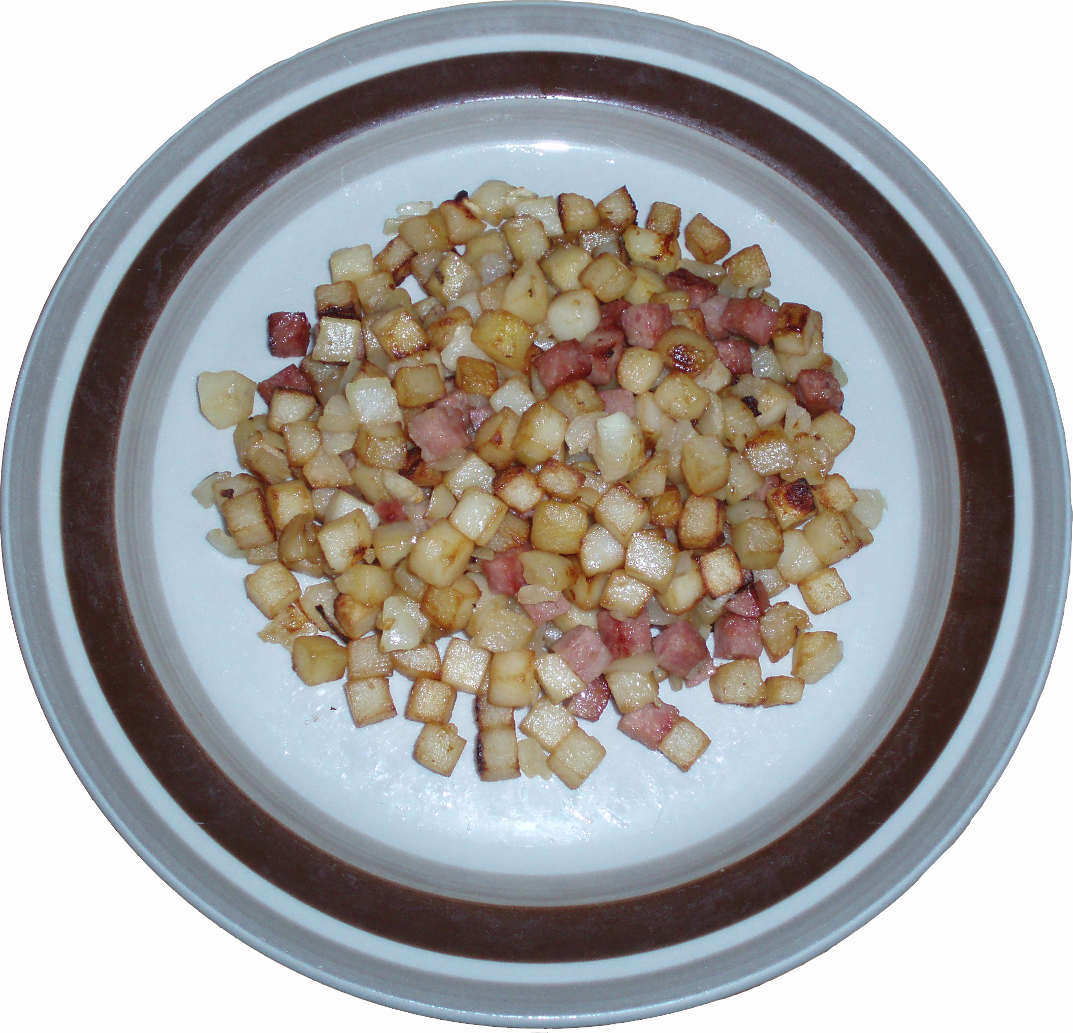 Pyttipanna